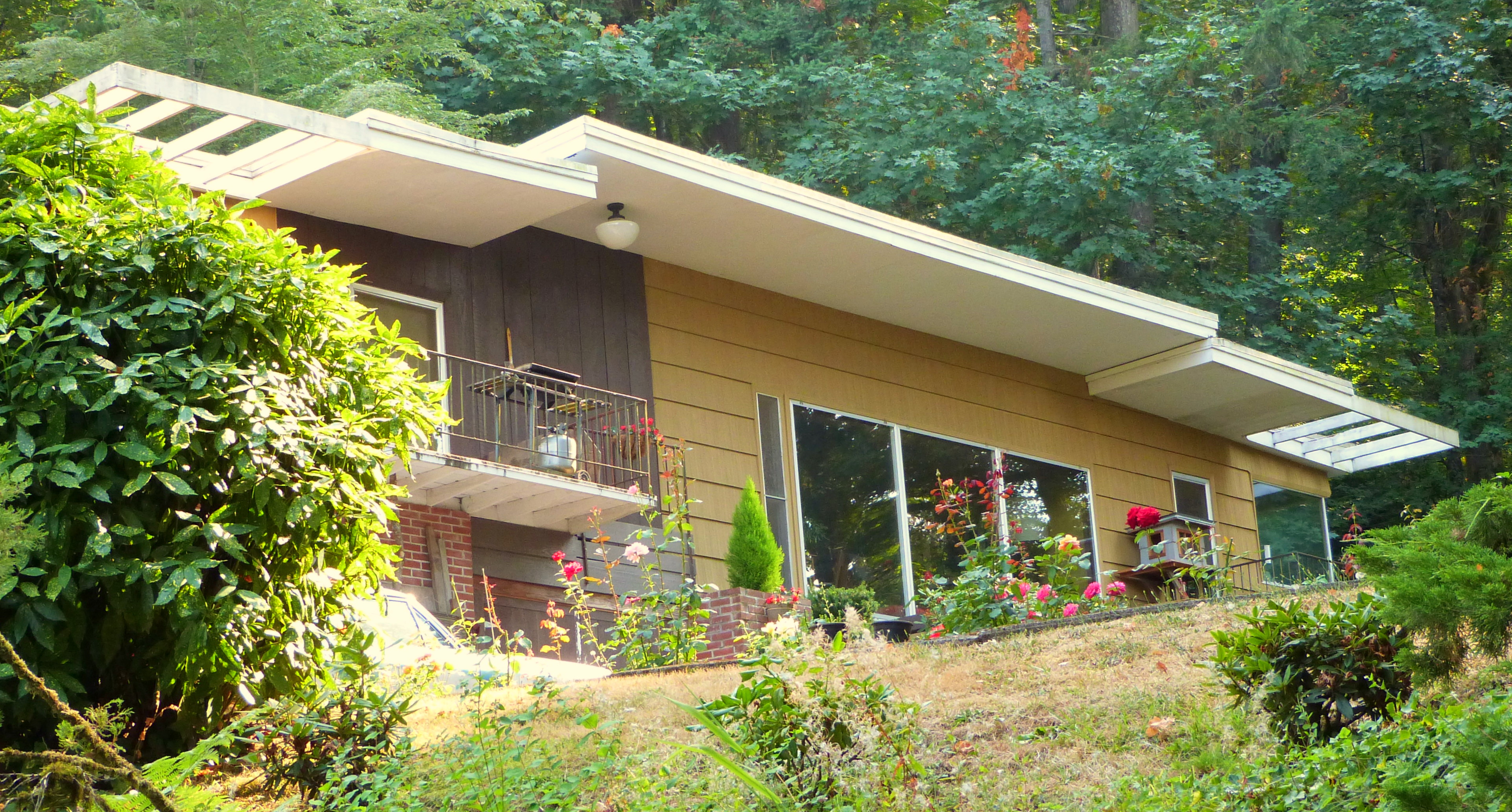 The historic Charles and Fae Olson House (built 1946–1957), located at 765 Southwest Walters Road in Gresham, Oregon, United States, is listed on the US National Register of Historic Places.